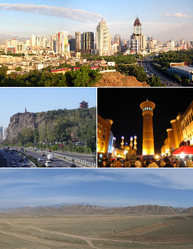 Montage of various Ürümqi images